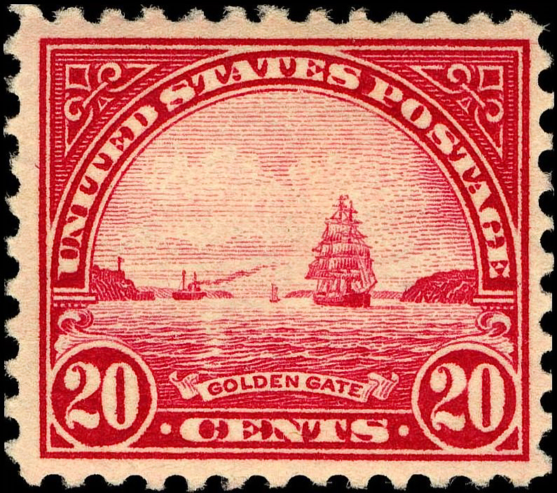 US Postage stamp, Golden Gate Issue, 1922, 20c, red